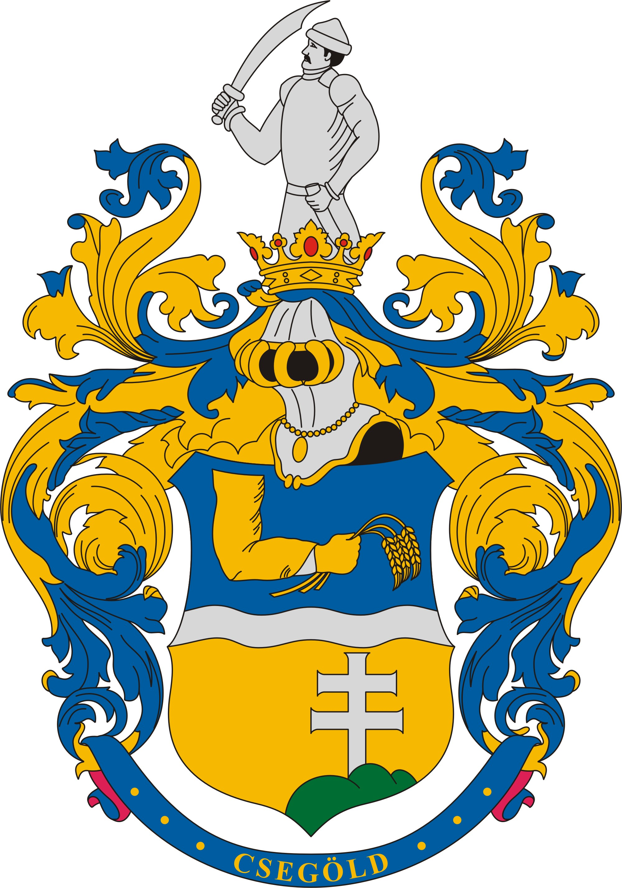 Coat of arms of Csegöld, Hungary